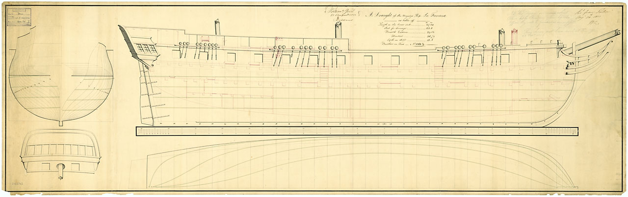 FURIEUSE FL.1809 [FRENCH] lines & profile